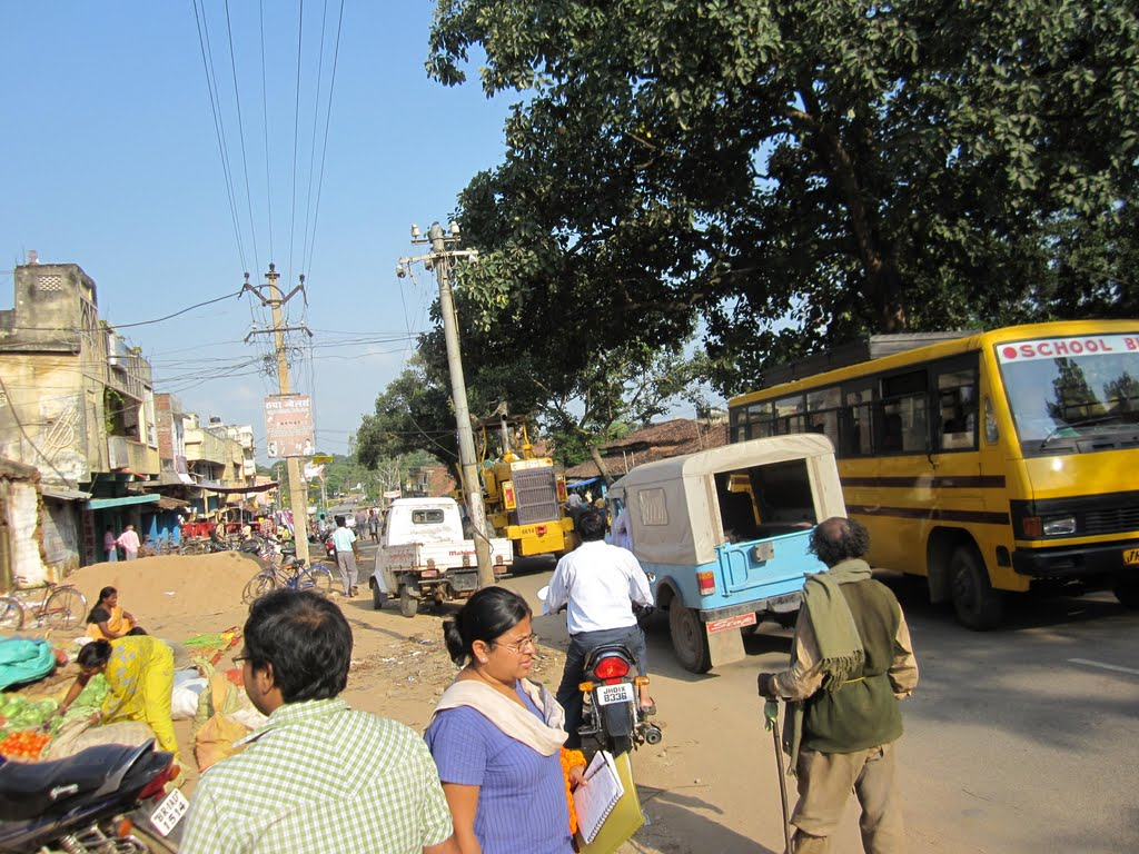 TORPA